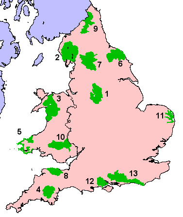 National Parks in England and Wales. 1. Peak district. 2. Lakes district.